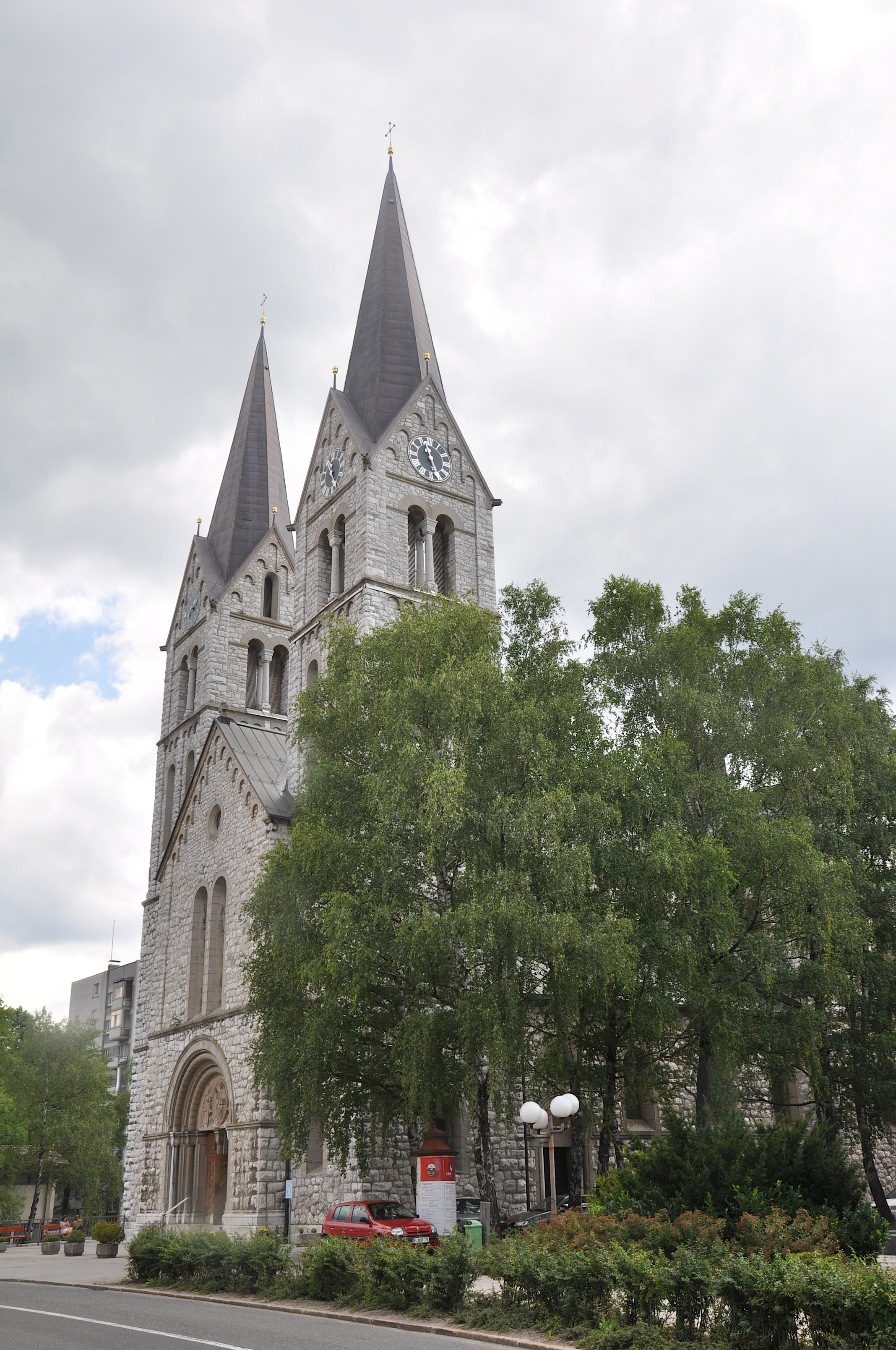 Church of st. Jernej, Kočevje, Slovenia